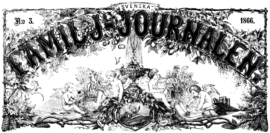 Swedish Family Journal logo 1866